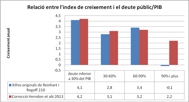 Graphic of the data from the Thomas Herndon (2013) and Rogoff-Reichart (2010 studies about growth and debt